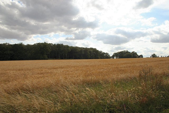 Lawn Wood Viewed from the minor road between Withersfield and West Wratting, near Exhibition Cottages.